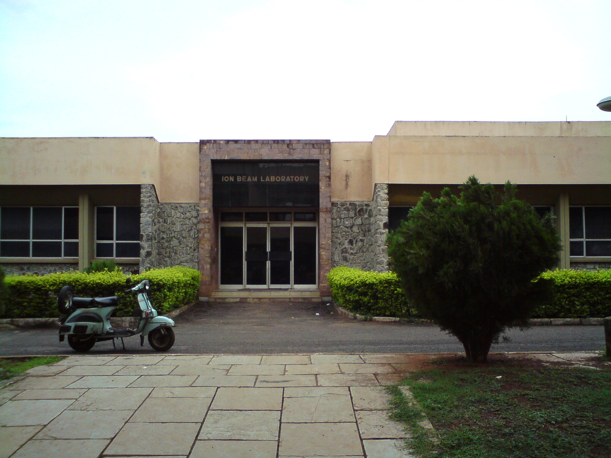 Ion Beam Lab at the Institute of Physics, Bhubaneswar